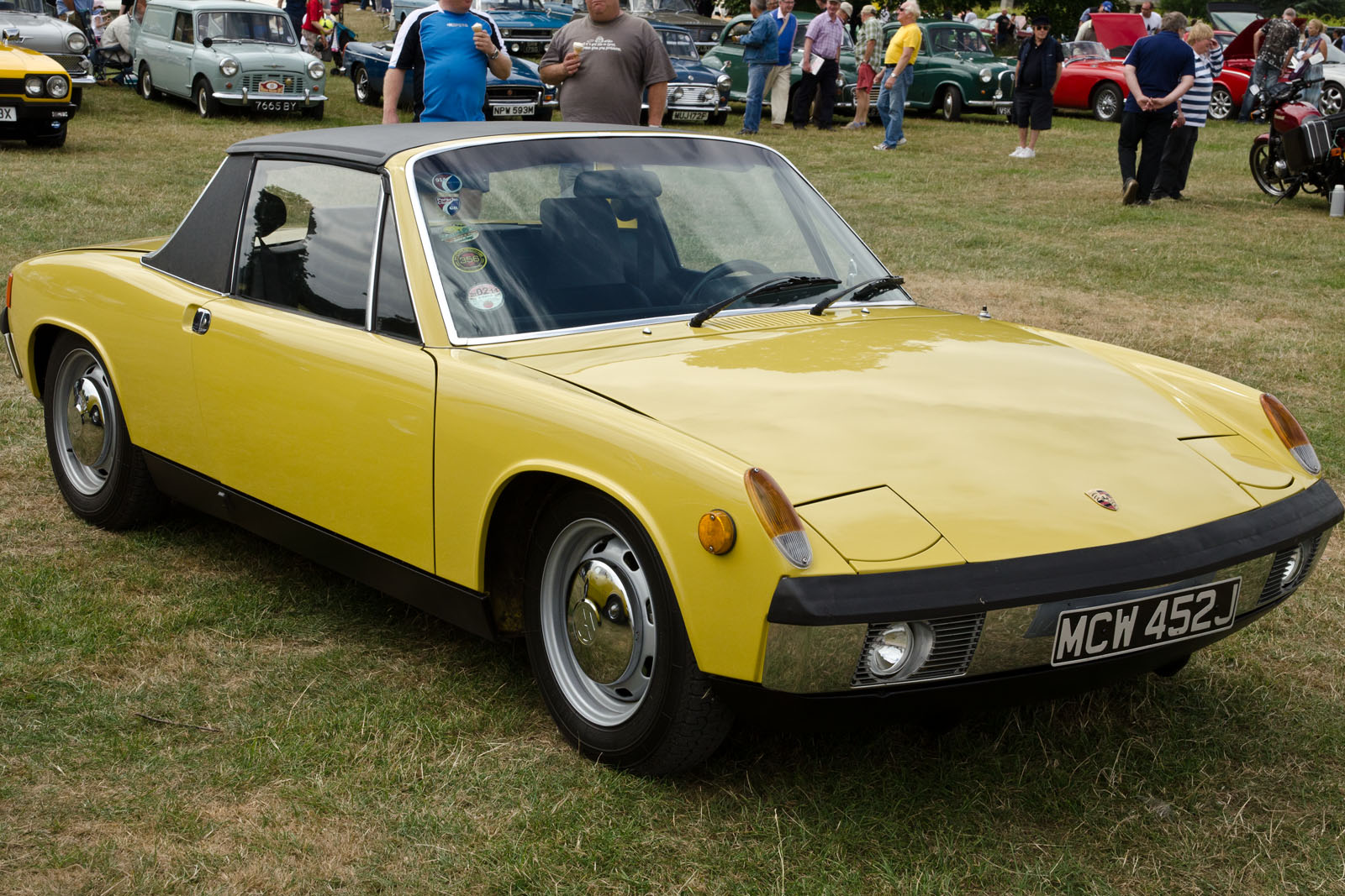 Bodelwyddan Classic Car Show 21/07/2013